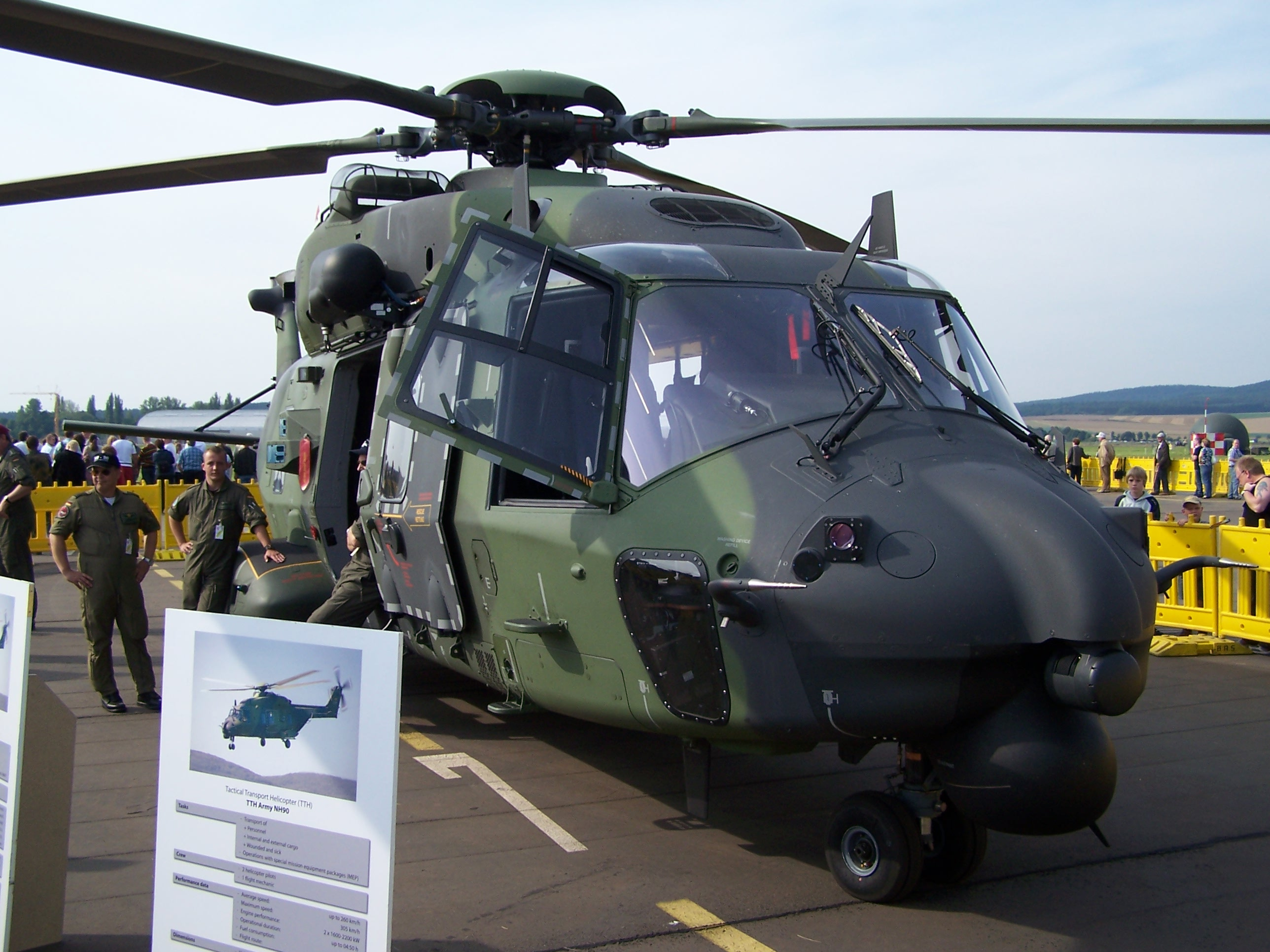 A German Army NH90 on static display at Helidays 2008 in Fritzlar